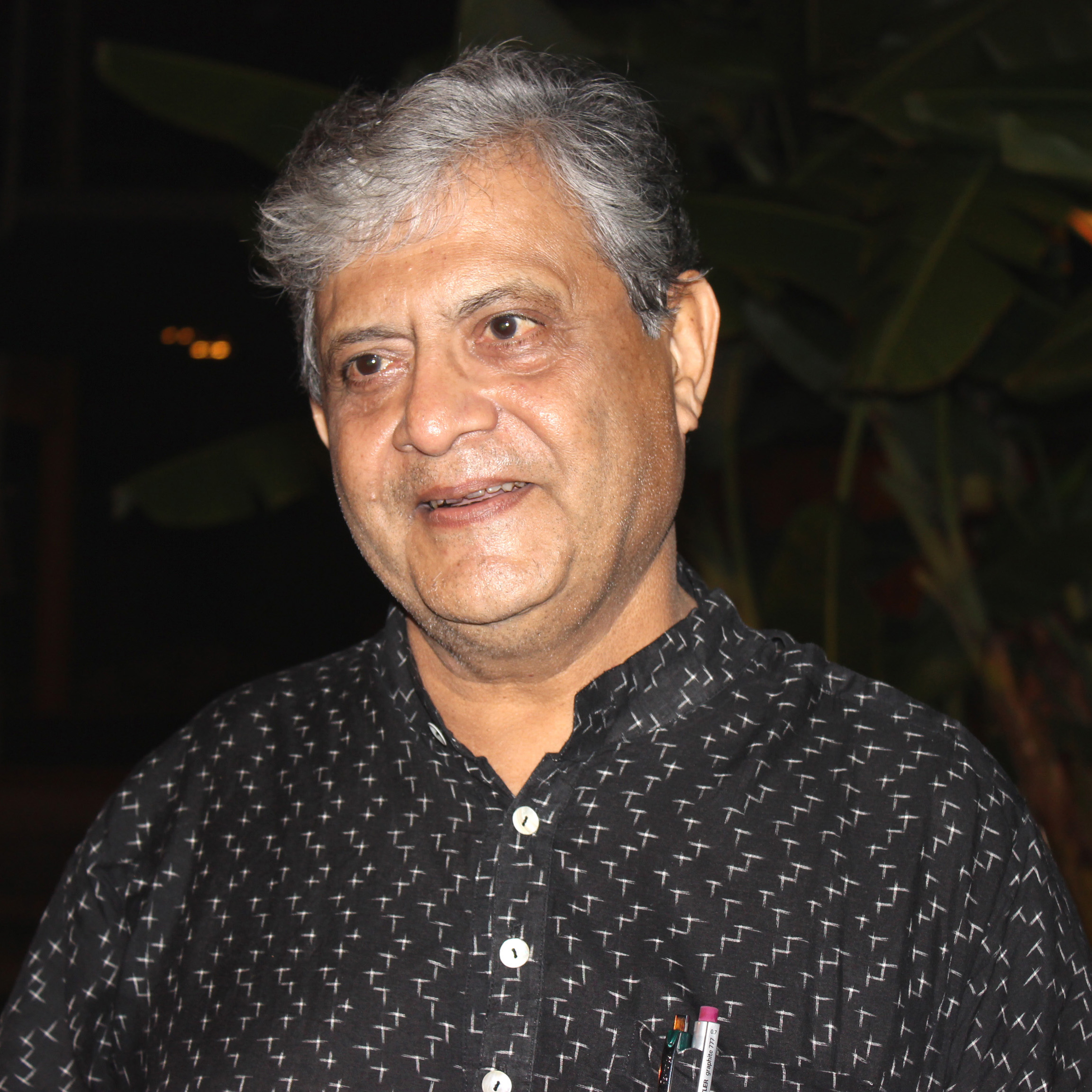 Performing at Madhyapradesh Tribal Museum Bhopal September 2015